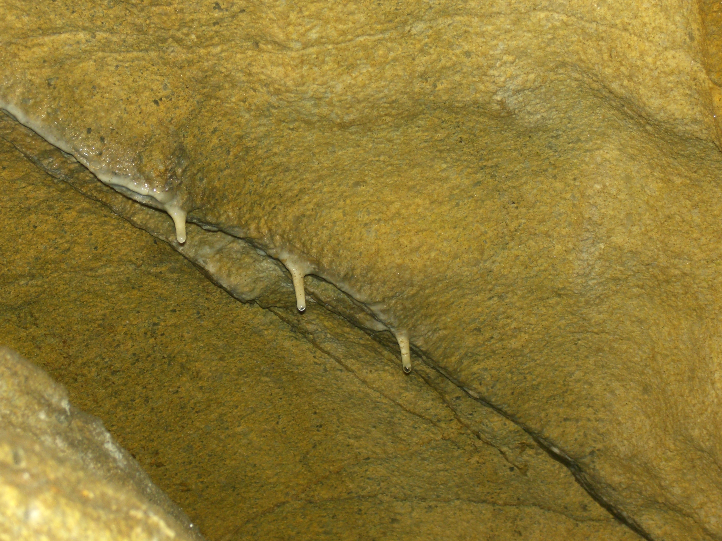 Chýnov's cave near Chýnov village, Czech Republic 49°25′48.39″N 14°49′58.07″E / 49.4301083°N 14.8327972°E